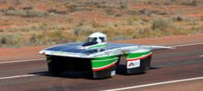 Emilia 3 Solar Car